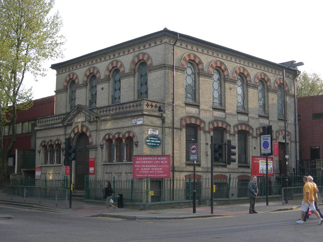 Caledonian Road Methodist Church, on the corner of Caledonian Road and Market Way, Islington, London. Built in 1870 as a Primitive Methodist chapel.